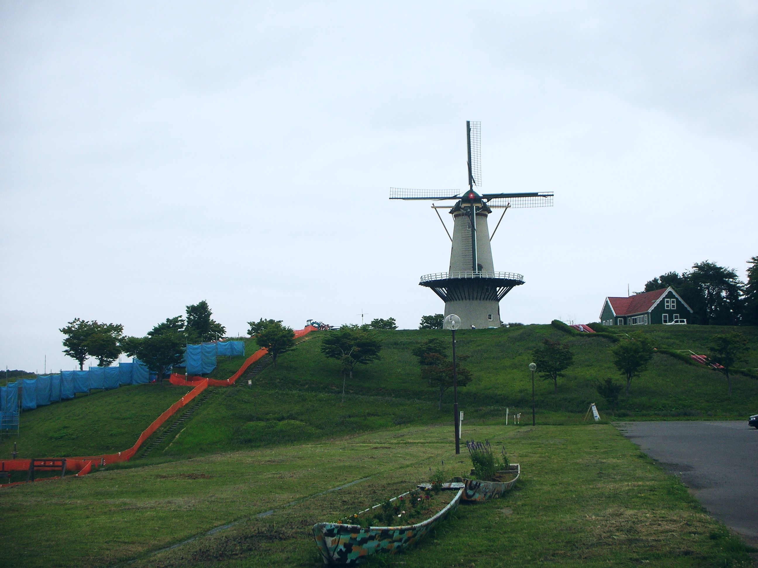 Naganuma Futopia Park in Tome City, Miyagi Prefecture, Japan